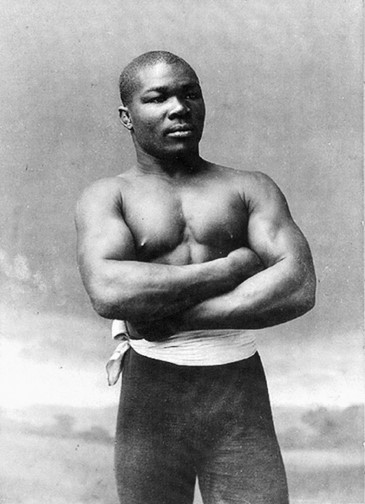 Photograph of Barbados Joe Walcott